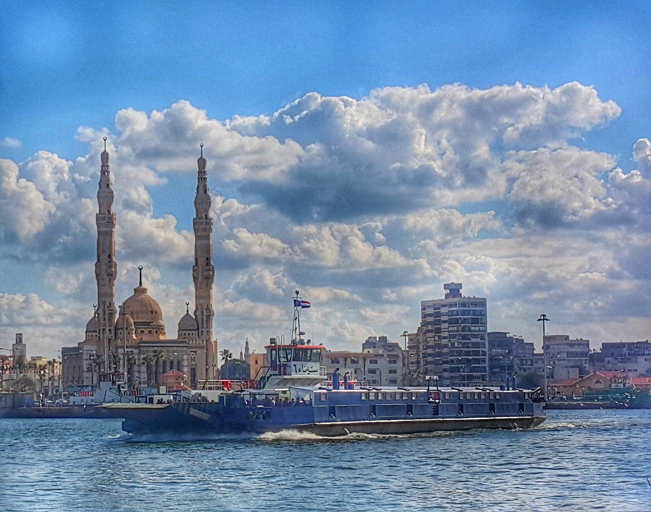 تصوير موبيل This is an image with the theme "Africa on the Move or Transport" from: Egypt